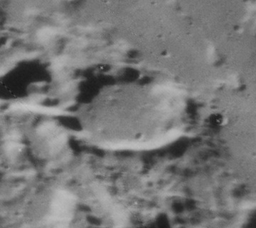 Oblique view of Schwabe crater, facing northwest, on the moon.